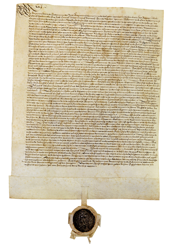 Parchement letter written by the council of the city of Bremen in the year 1545 with the permission to establish the independent charitable foundation Arme Seefahrt (“poor seafaring”, today named Haus Seefahrt).